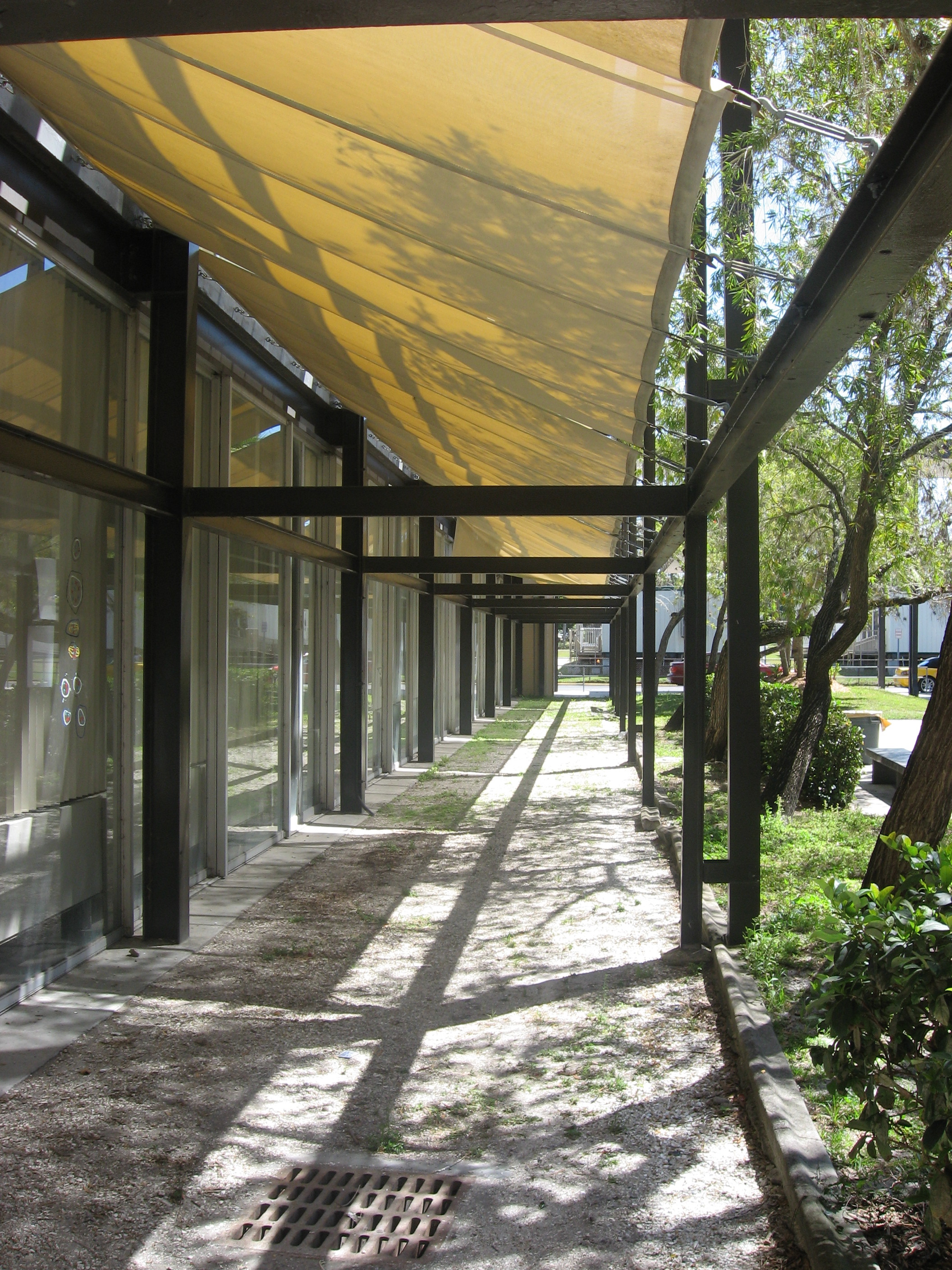 Riverview High School, Sarasota, Florida - Details of the novel approach in the former building to handle environmental factors in subtropical Sarasota